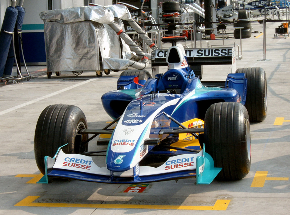 Sauber Petronas C24 (2005)